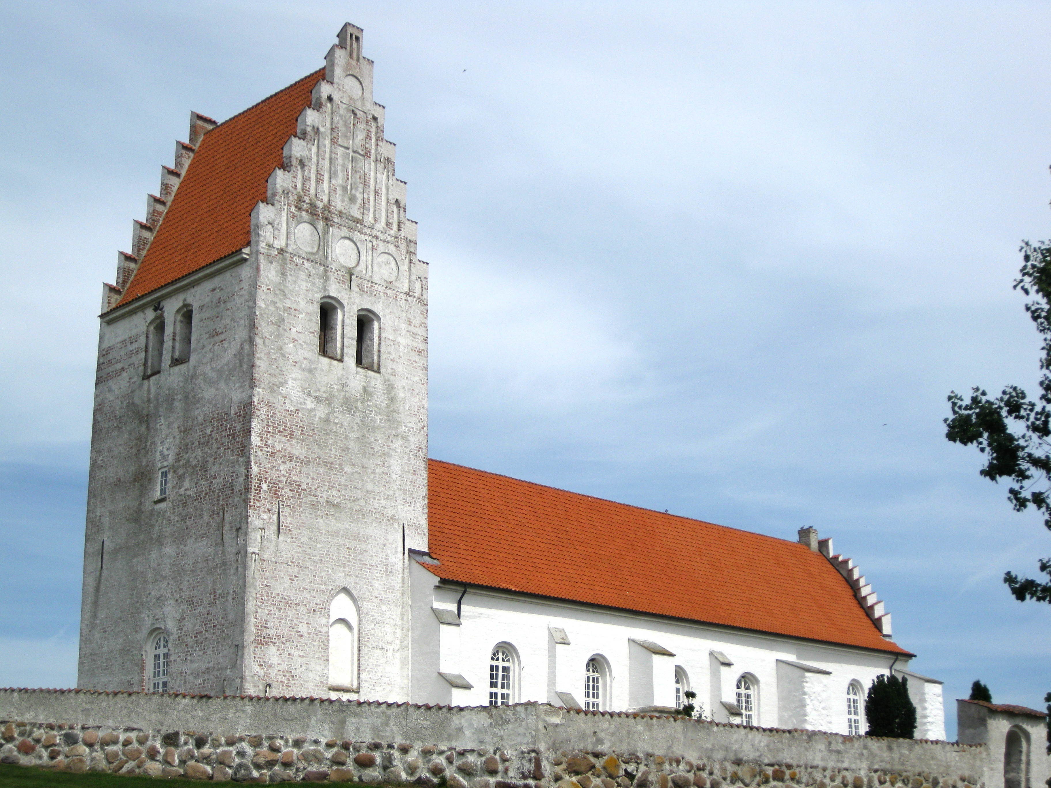 The church "Fanefjord Kirke" on the island Møn. The island is located south of Zealand in east Denmark.